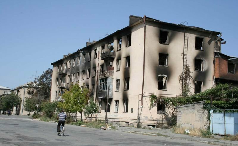 18 August 2008. Tskhinvali after Georgian artillery bombardment according to the South Ossetian Information Committee.